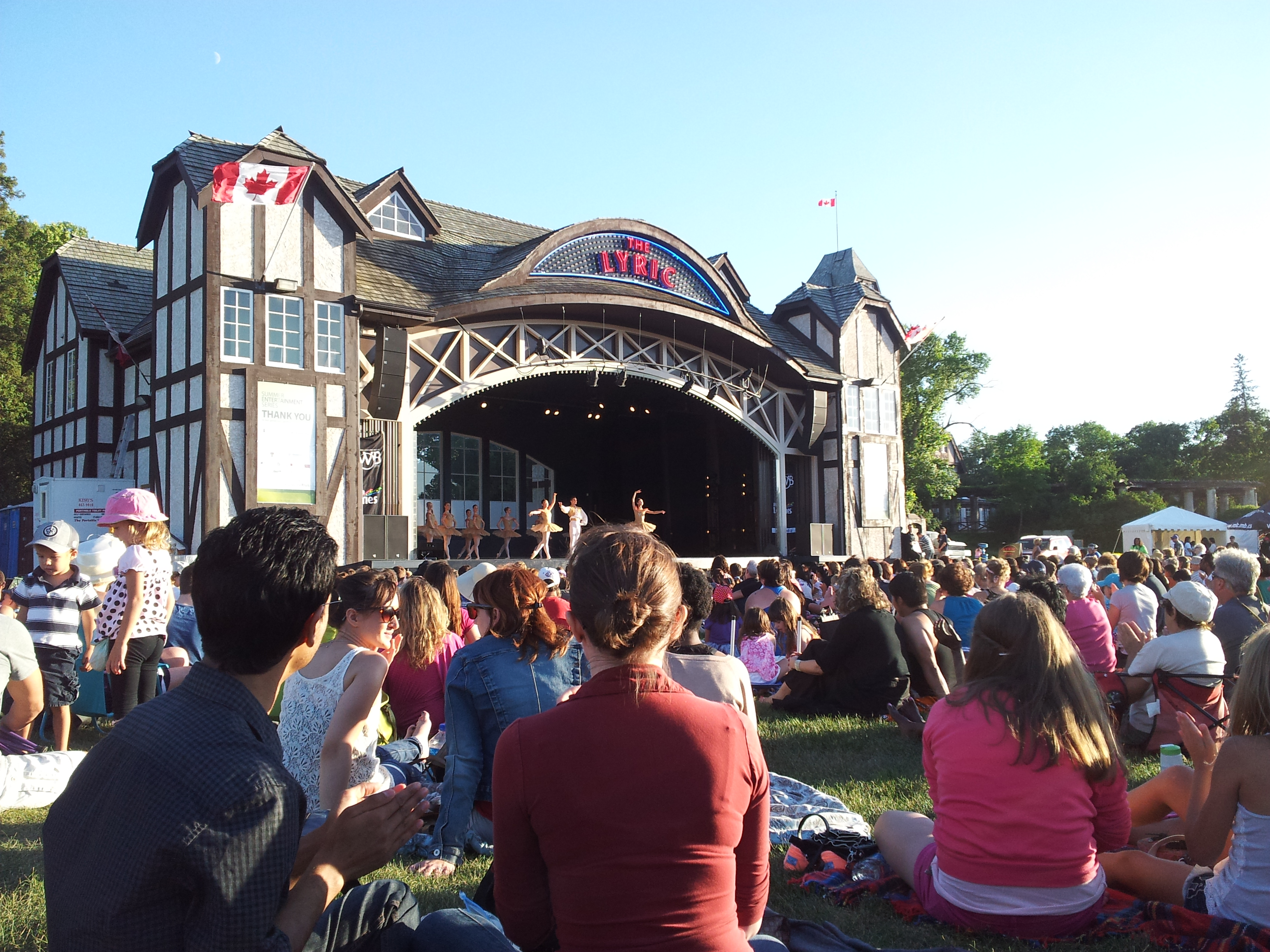 The Lyric Stage at the Assiniboine Park Pavilion in Winnipeg, Manitoba during the Ballet at the Park event 2012